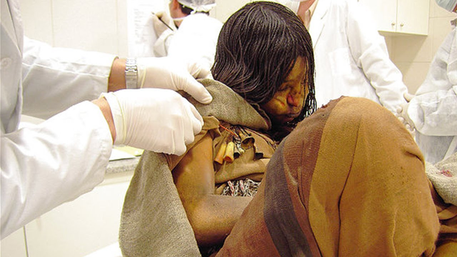 Children of Llullaillaco in Salta province (Argentina).